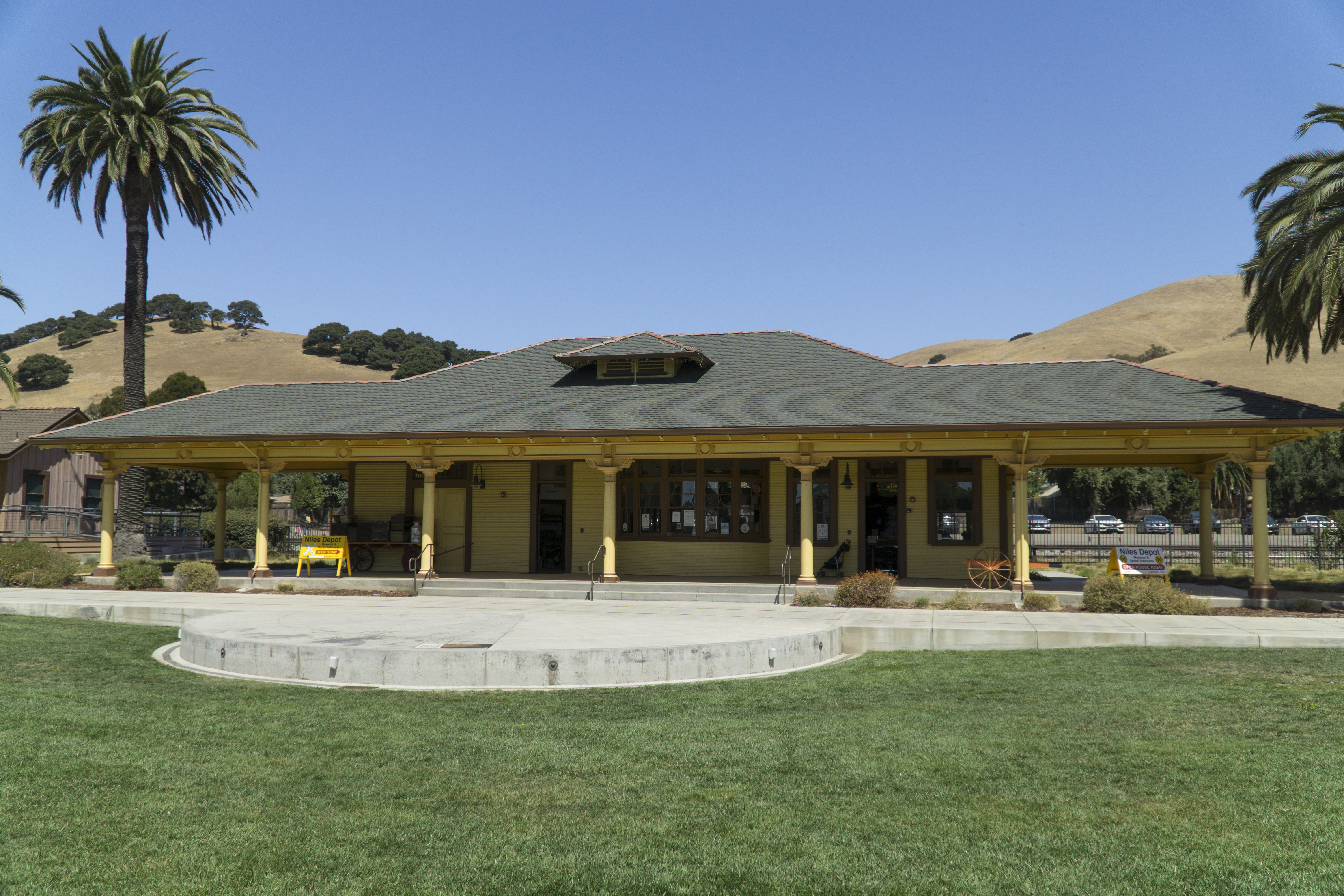 The Niles Depot Museum in the Niles district of Fremont, California, USA.